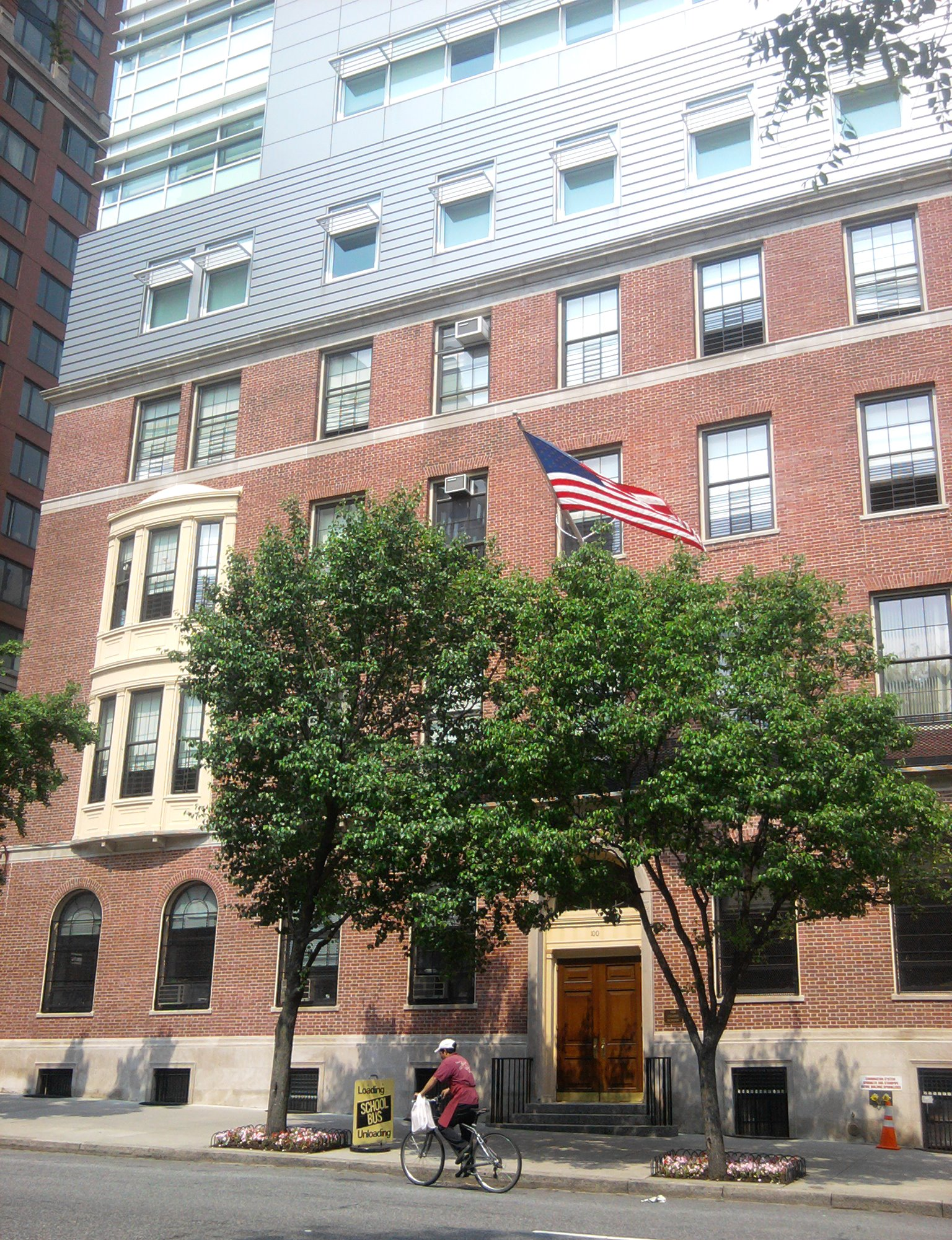 Looking west across East End Avenue at Chapin School on a sunny day.